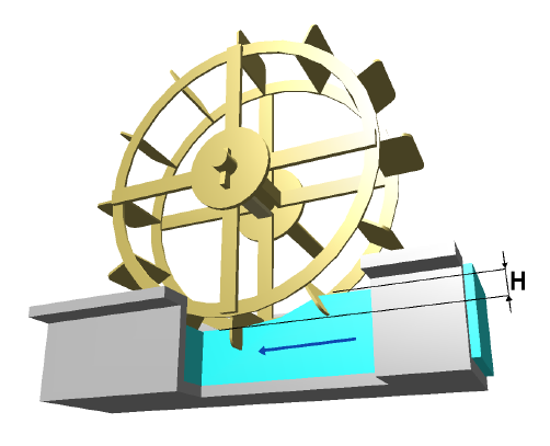 3D view (sectional) of a water wheel, bottom feed Author : R. Castelnuovo (myself) 2005 11 02